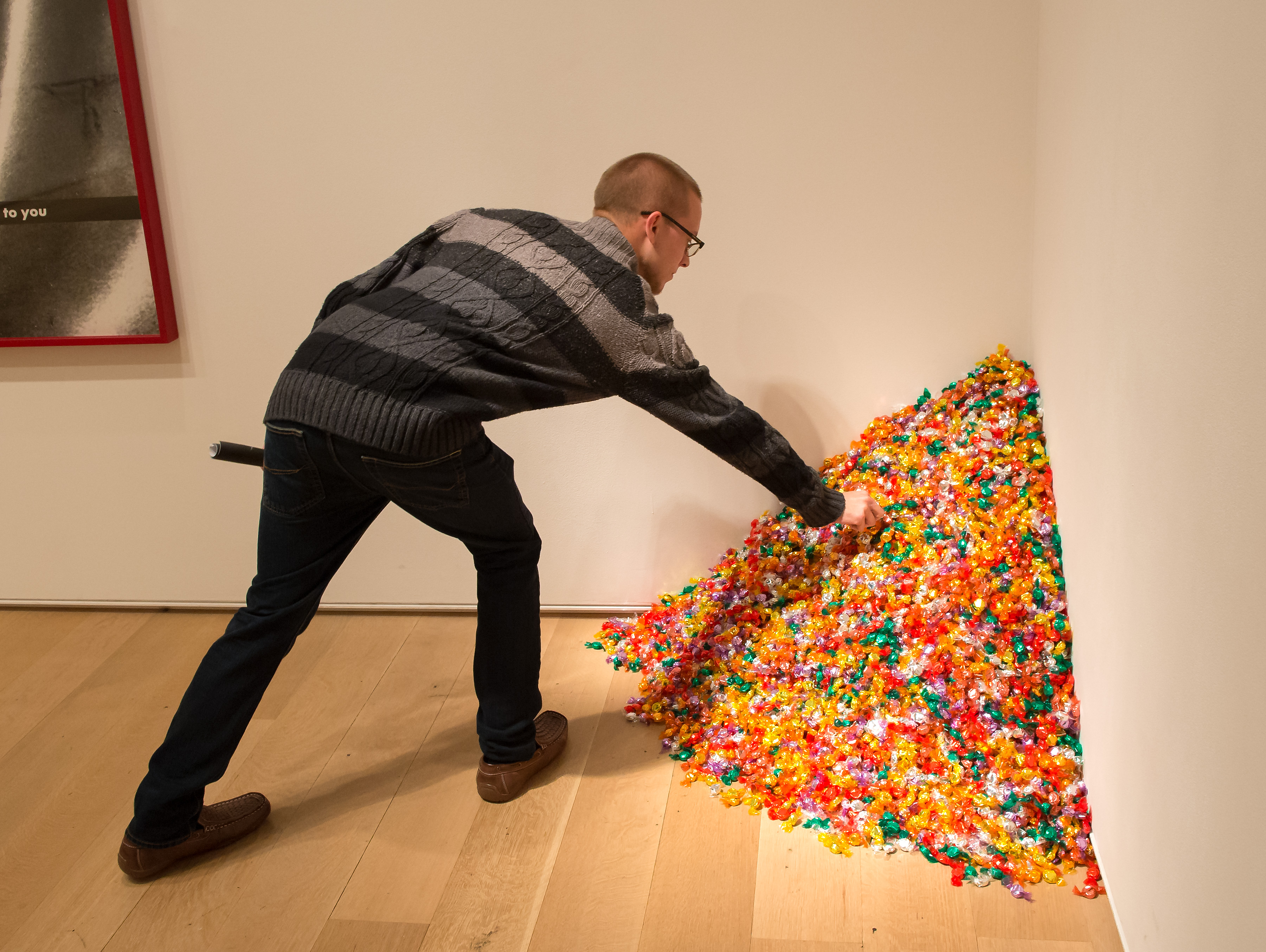 A man taking a piece of candy from the art piece